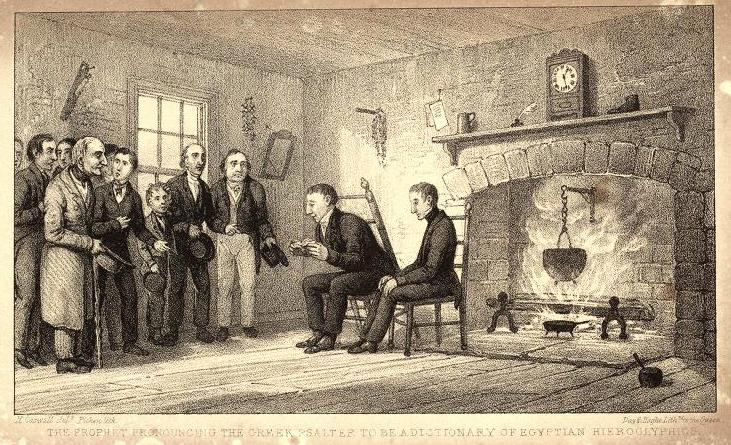 Frontispiece, entitled "The Prophet Pronouncing the Greek Psalter to be a Dictionary of Egyptian Hieroglyphics," from Henry Caswall, The Prophet of the Nineteenth Century; or, The Rise, Progress, and Present State of the Mormons, or Latter-day Saints, To Which is Appended an Analysis of the Book of Mormon, London: Rivington, 1843.